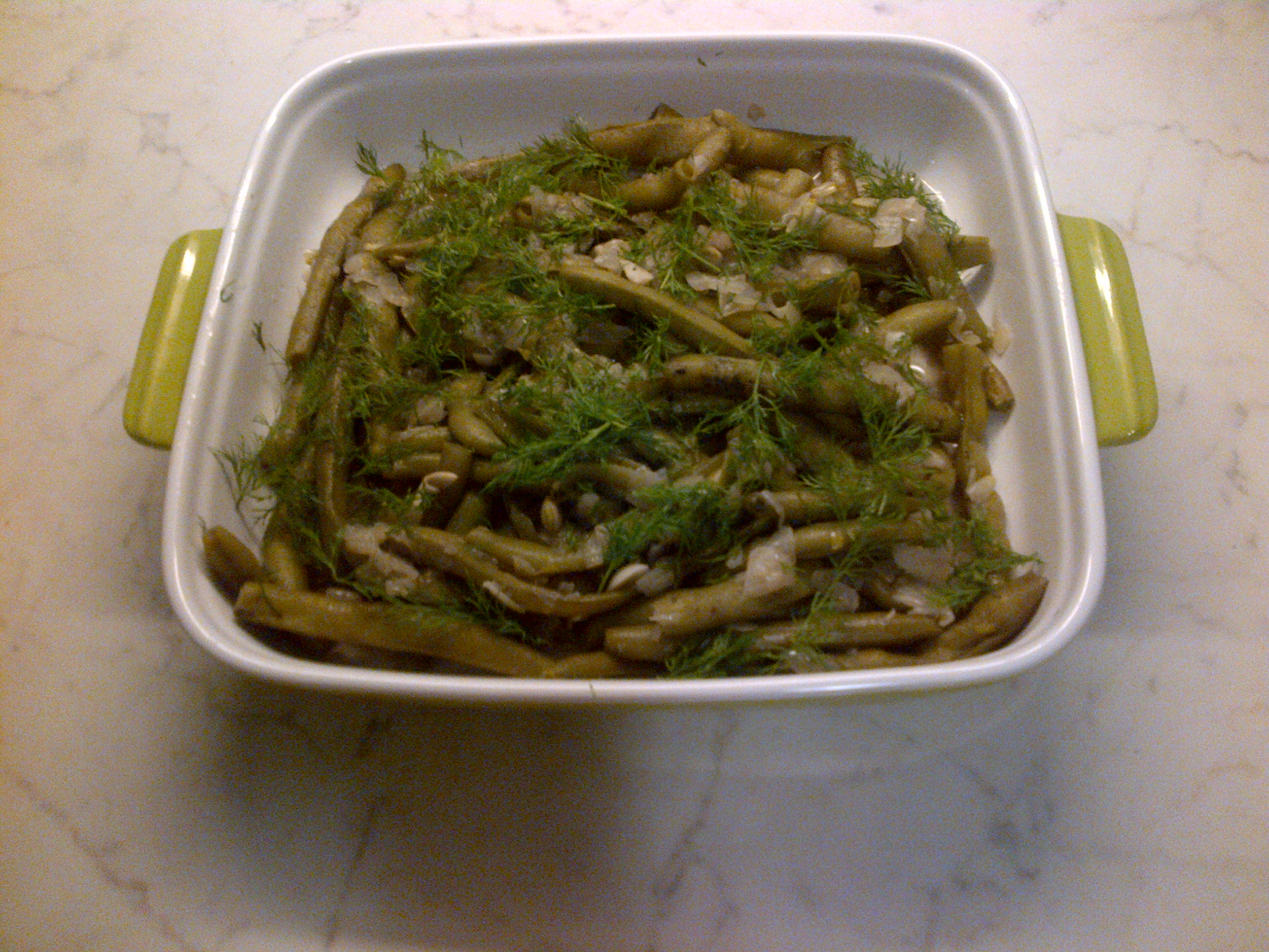 "Zeytinyağlı (taze) bakla", or green broad beans with olive oil, is a spring-time dish of the Turkish cuisine. It is served with fresh dill leaves (and garlic yogurt if so preferred).